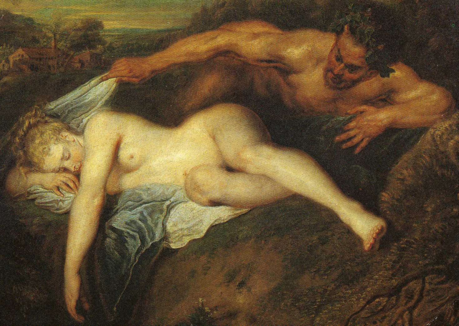 Nymph and Satyr, also known as Jupiter and Antiope, detail. oil on canvasmedium QS:P186,Q296955;P186,Q12321255,P518,Q861259